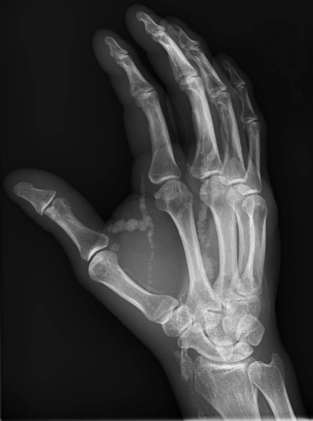 Oblique hand radiograph showing tumoral calcinosis (metastatic calcification) in a patient on dialysis.